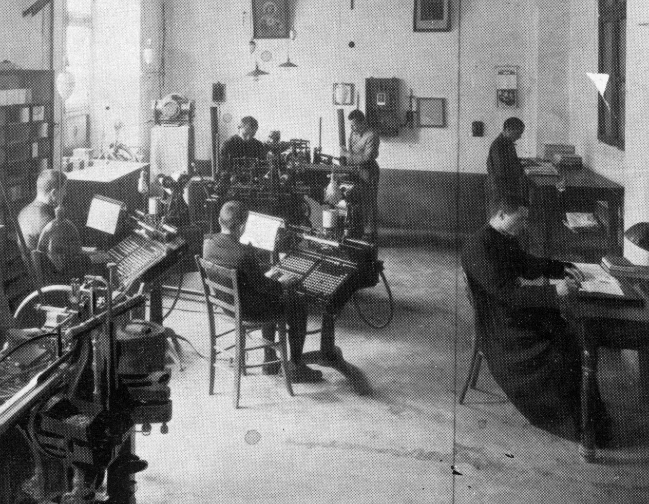 Blessed James Alberione's idea of Pauline Apostolate for the Society of Saint Paul, apostles of the communication media.